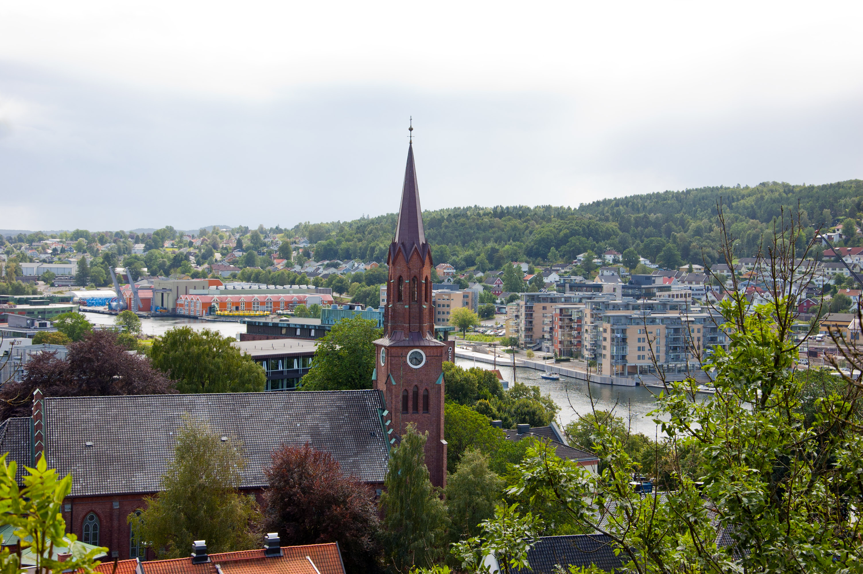 Tønsberg cathedral, Tønsberg, Vestfold, Norway.